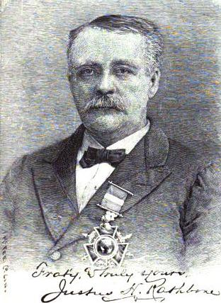 Justus H Rathbone, founder of the Order of the Knights of Pythias